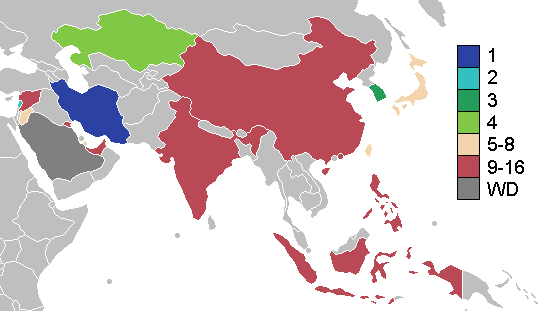 Countries competing in the FIBA Asia Championship 2007